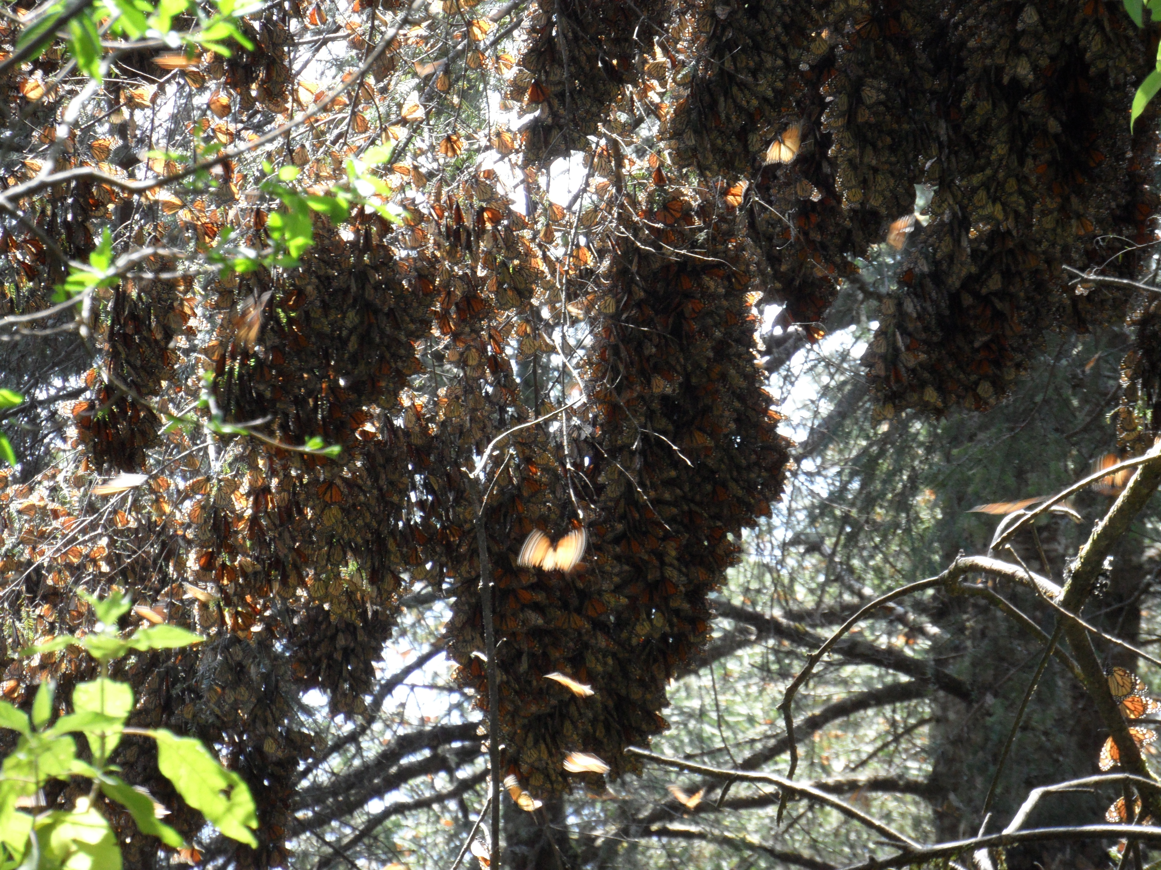 Butterflies Monarch